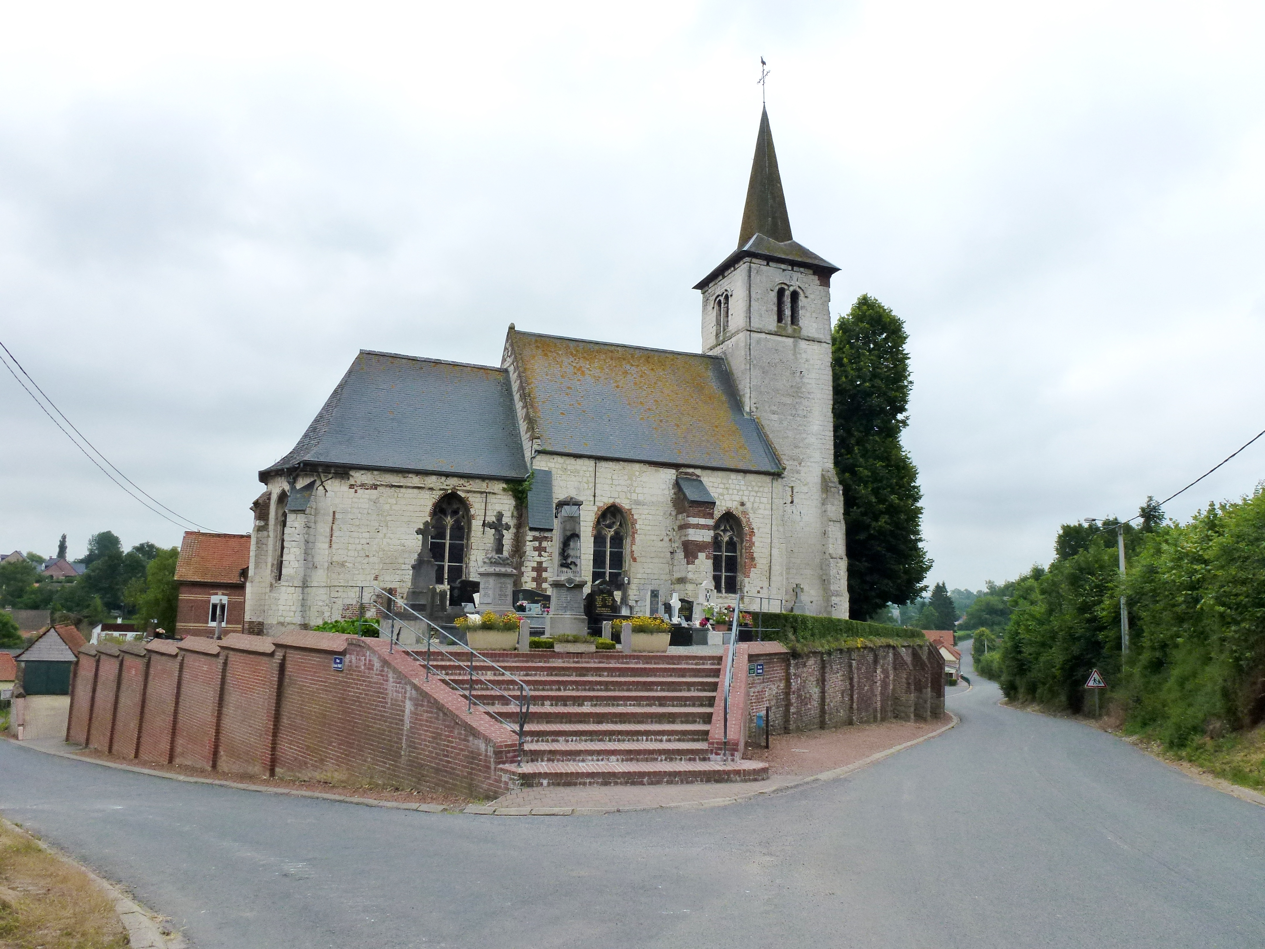 Auchy-aux-Bois (Pas-de-Calais) église